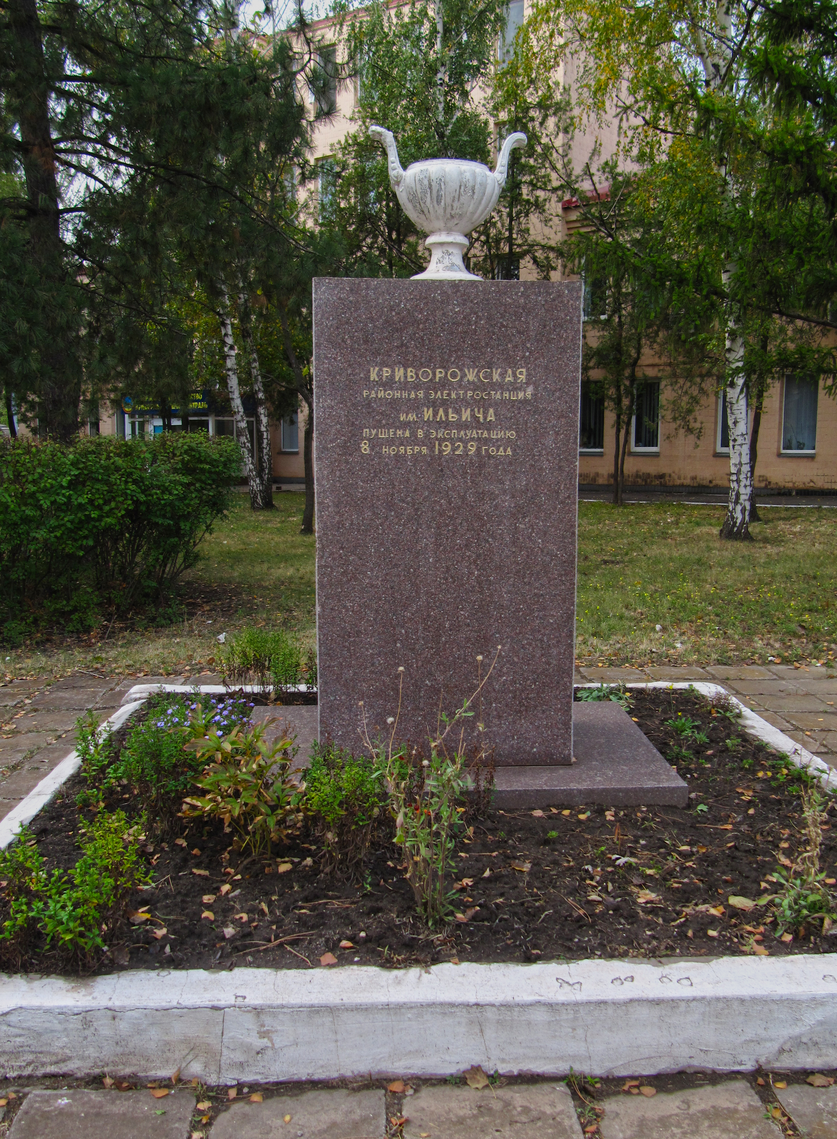 The memorial sign in honor of the 50th anniversary of the launch CHP named after Illich, Kryvyi Rih Ukraine